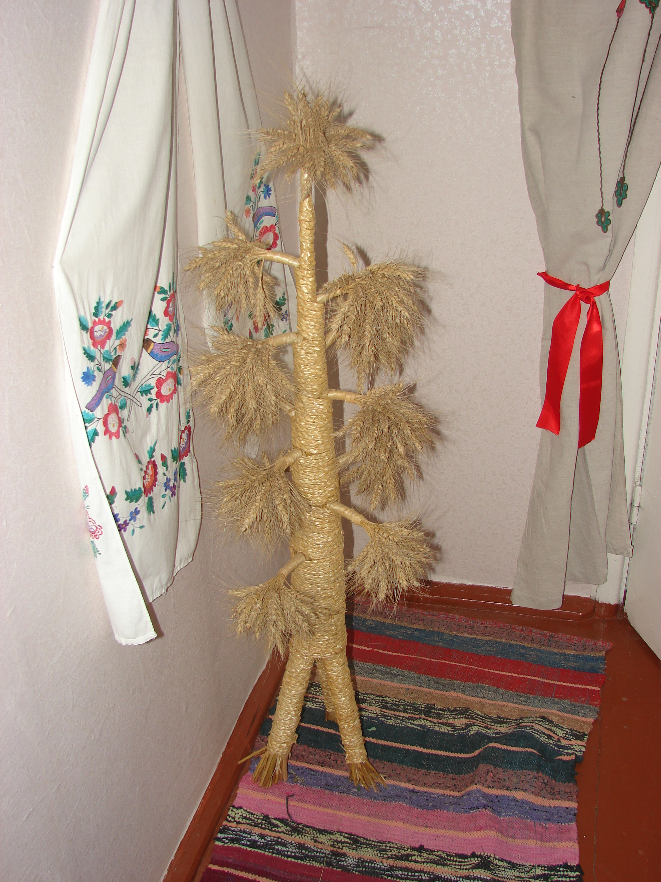 Didukh — a traditional Ukrainian straw religious object.